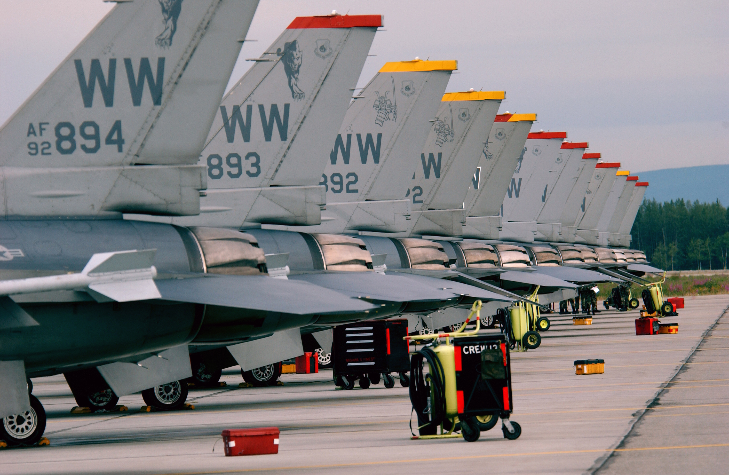 F-16s from Misawa AB, Japan